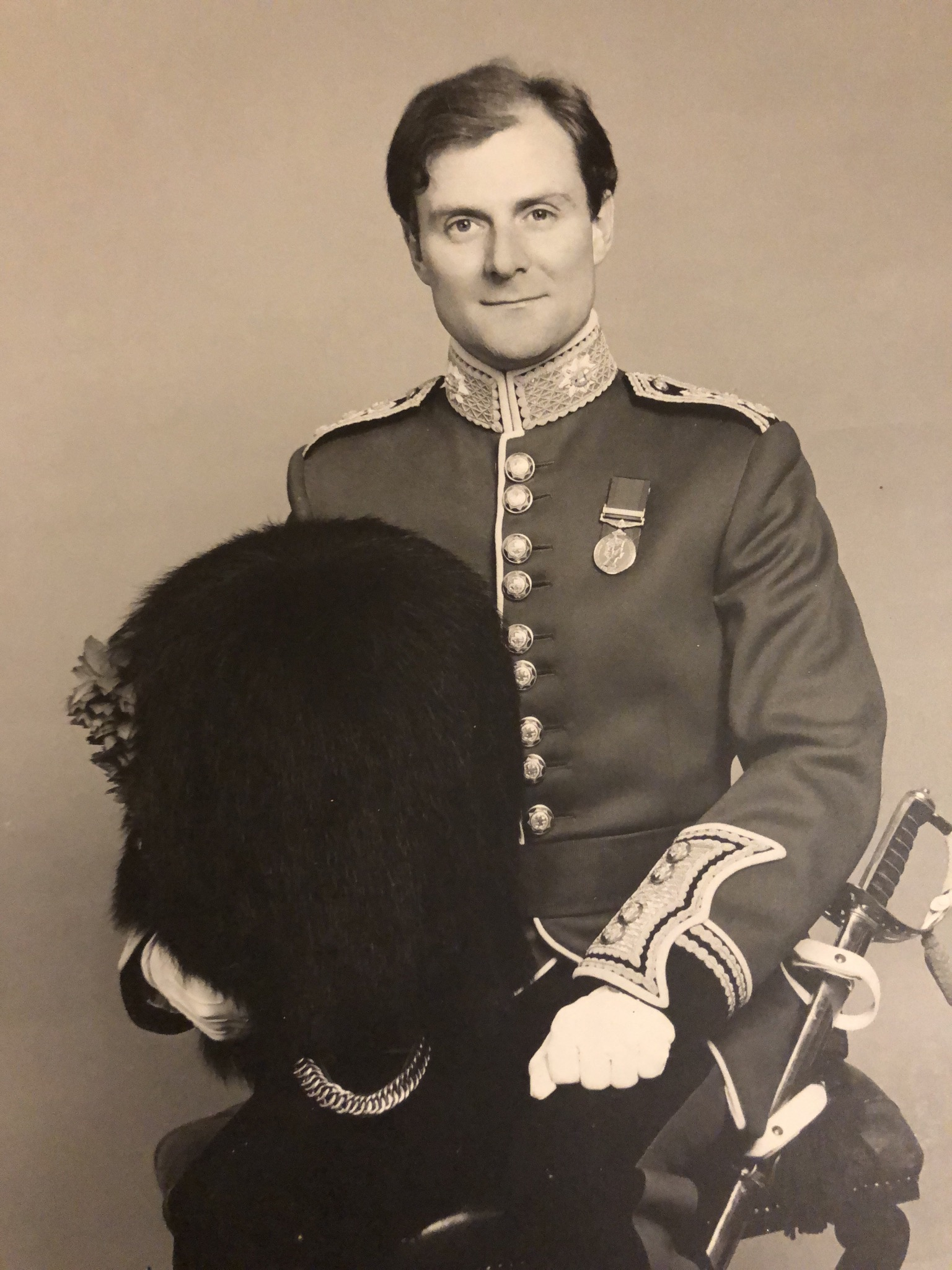 Lord Ellenborough (b.1955)